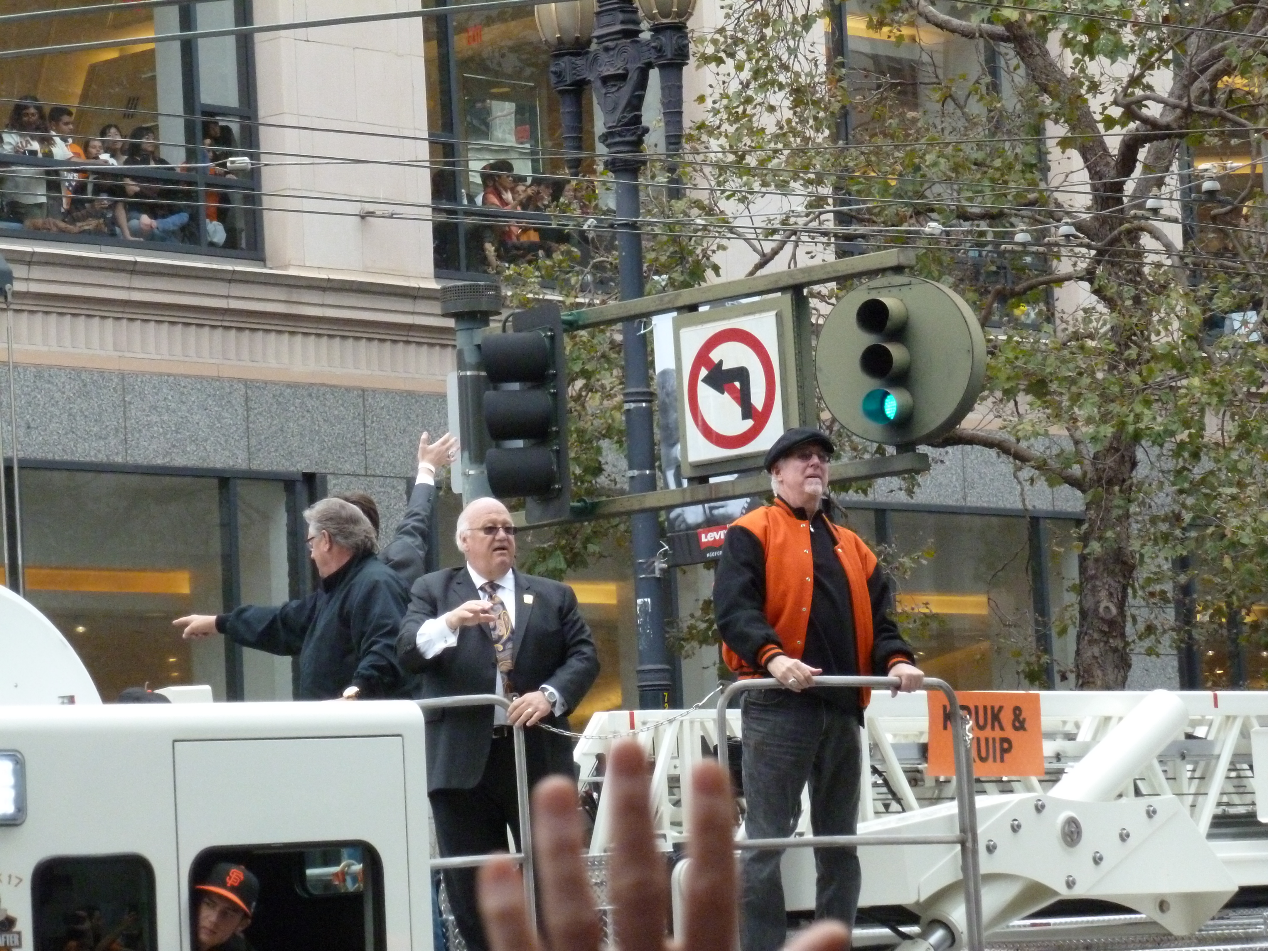 San Francisco Giants broadcasters Jon Miller and Mike Krukow facing fans at 2012 Giants victory parade while Duane Kuiper looks the other side.